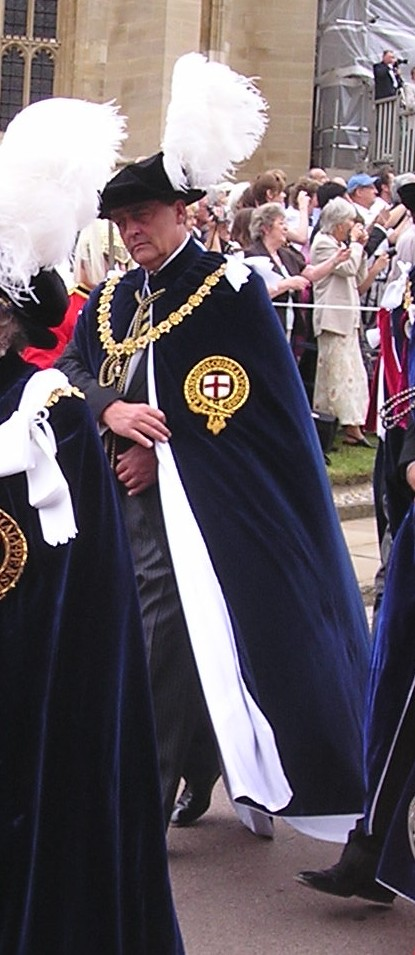 The Duke of Westminster wearing his robes as a Knight Companion of the Order of the Garter, in procession to St George's Chapel, Windsor Castle for the annual service of the Order of the Garter.